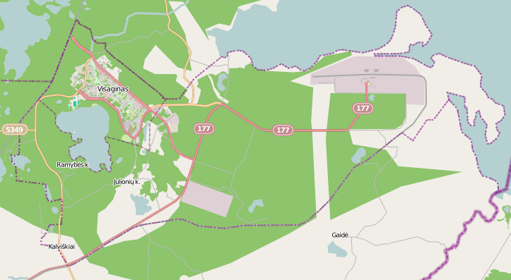 This map may be incomplete, and may contain errors. Don't rely solely on it for navigation.